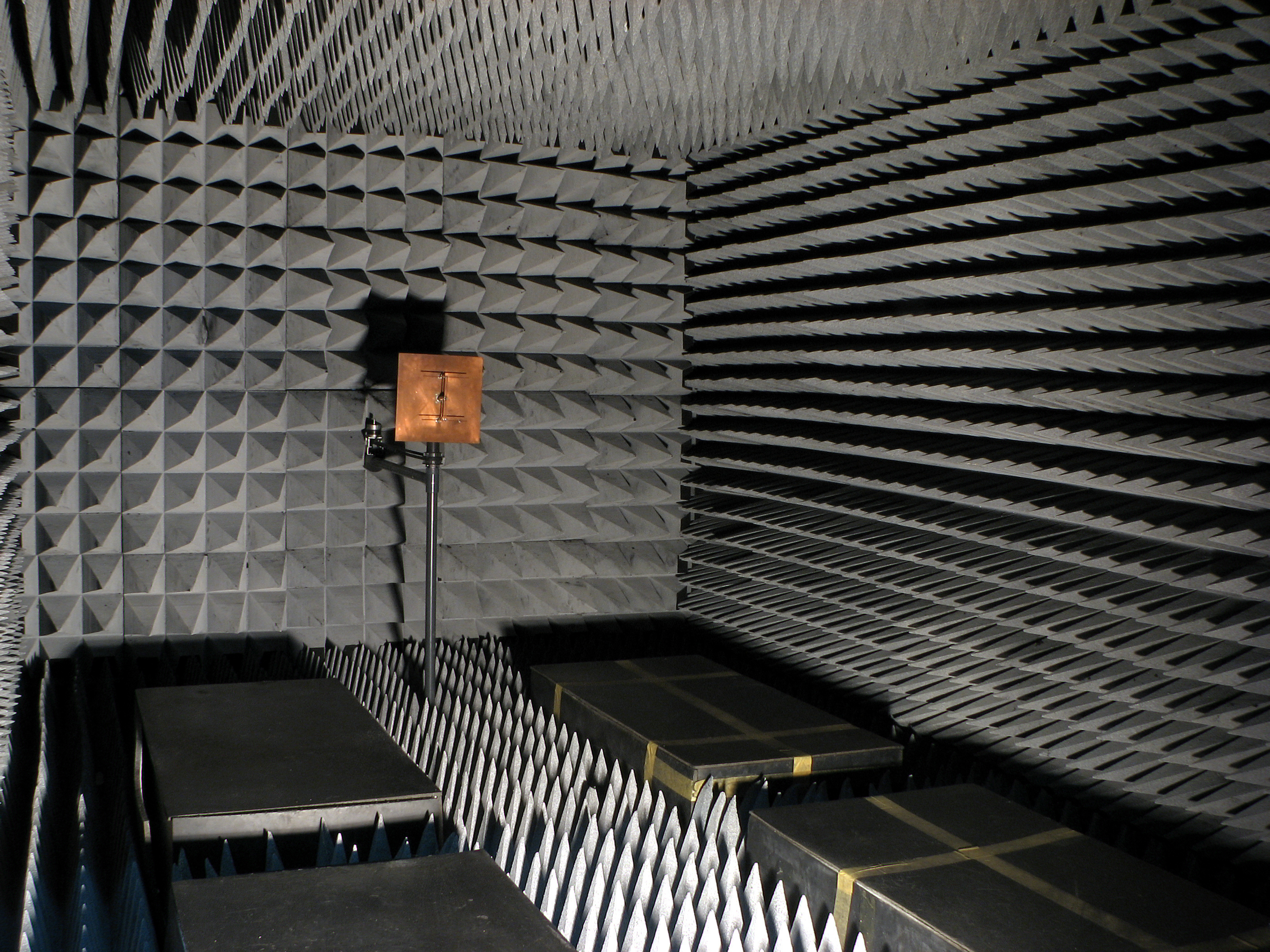 Radio frequency anechoic chamber, Antennas Research Group, Democritus University of Thrace, Greece. The interior surfaces are covered with pyramidal Radiation Absorbent Material (RAM) which are made of rubberized foam impregnated with mixtures of carbon and iron.